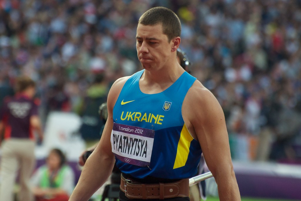 Oleksandr Pyatnytsya, javelin thrower from Ukraine